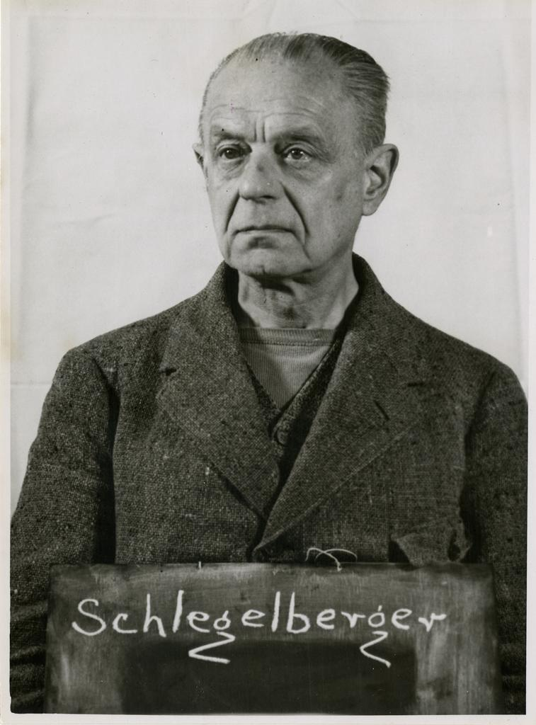 Franz Schlegelberger (1876-1970) was a high ranking official (Staatssekretär) in the German Ministry of Justice (Reichsjustizministerium) during the Second World War. This photograph of Schlegelberger (probably as a defendant during the Nurmeberg Trials No. III - the Justice Case) was taken by US Army photographers on behalf of the Office of the U.S. Chief of Counsel for the Prosecution of Axis Criminality (OUSCCPAC, May 1945 - Oct. 1946) or its successor organization, the Office of Chief of Counsel for War Crimes (OCCWC, Oct. 1946 - June 1949).